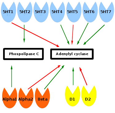 This drawing shows how monoamine receptors affect phospolipase C and adenylyl cyclase. Green arrows means stimulation and red arrows inhibition. Serotonin receptors are blue, norepinephrine orange, and dopamine yellow. The 5HT-3 receptor gates a ion channel and has no relationship to the other monoamine receptors.